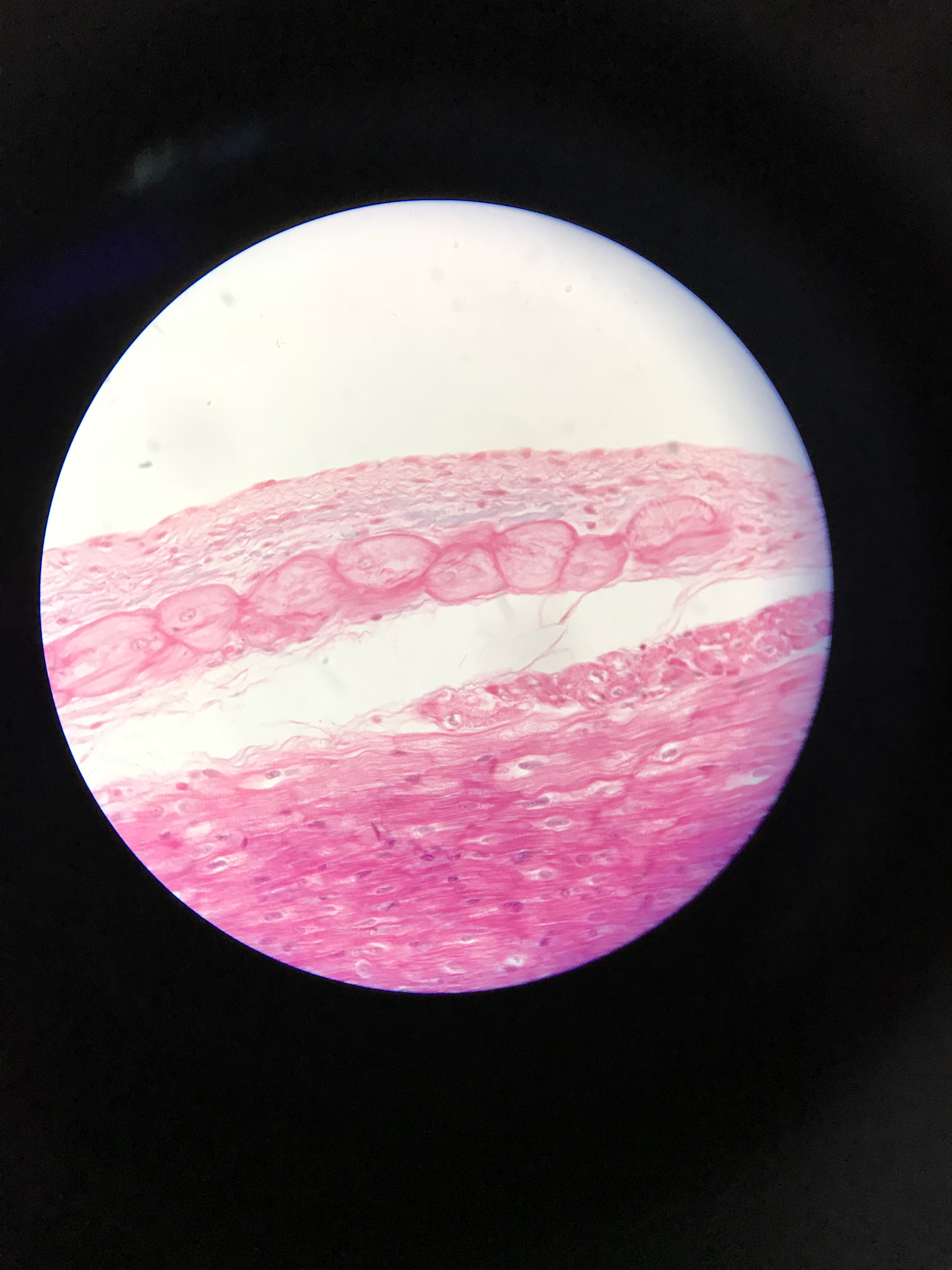 Purkinje fibers just beneath the endocardium.